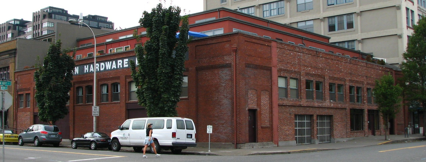 The historic Honeyman Hardware Company Building (built 1903), located at 832 Northwest Hoyt Street in Portland, Oregon, United States, is listed on the US National Register of Historic Places.